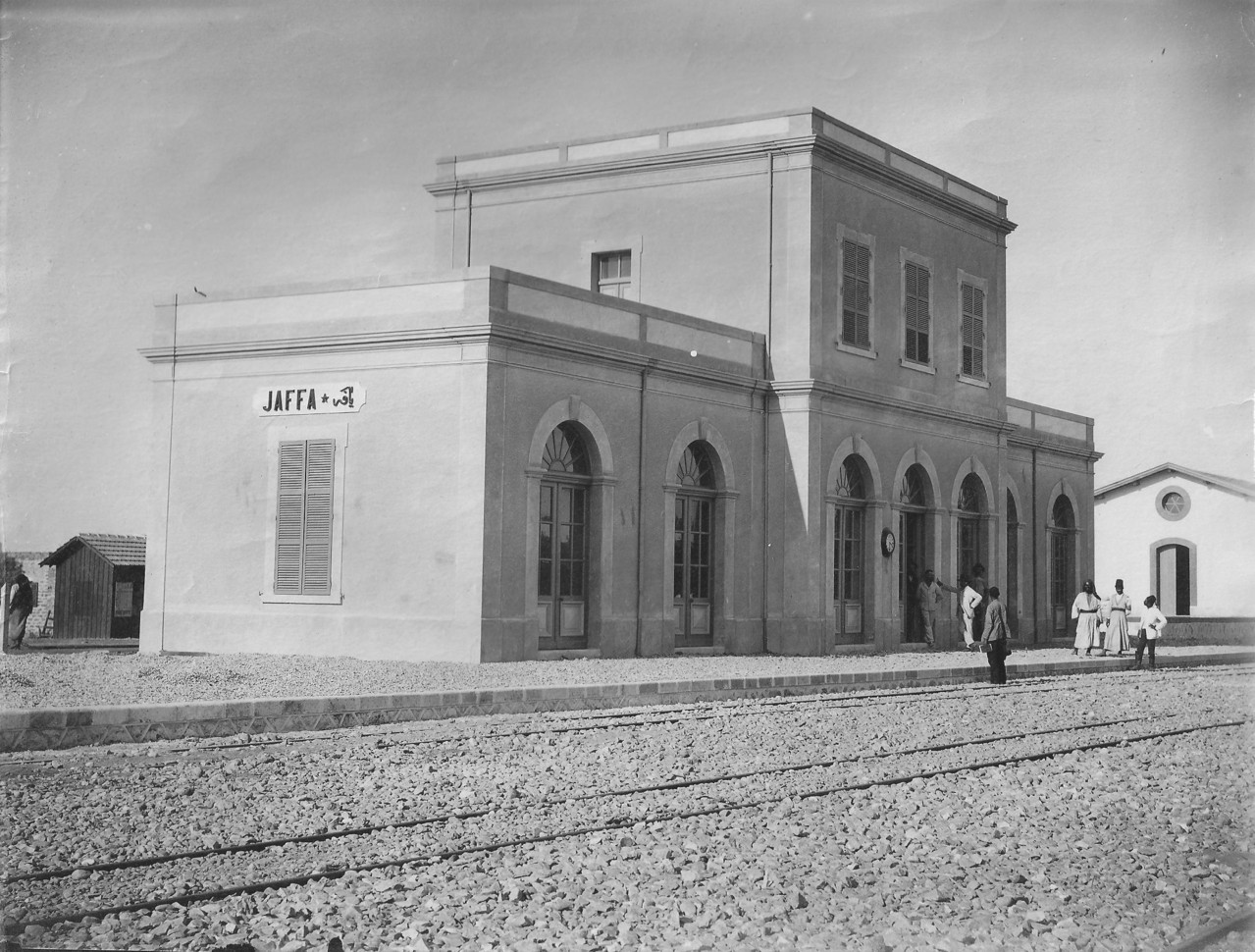 An exciting portrait of the new train station in Jaffa, the sea-port terminal of the Jaffa & Jerusalem Railway.